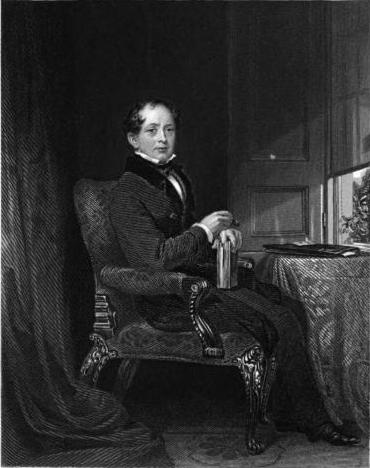 "Thomas Moore (aged 58)" of Thomas Moore (1837) frontispiece to Memoirs, Journal and Correspondence of Thomas Moore 1860.